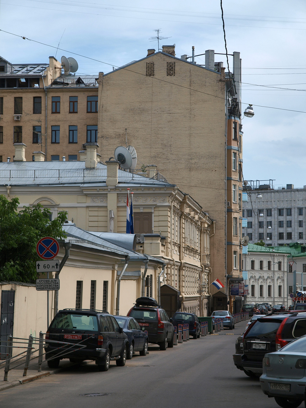 Kalashny Lane, Moscow - Dutch embassy.